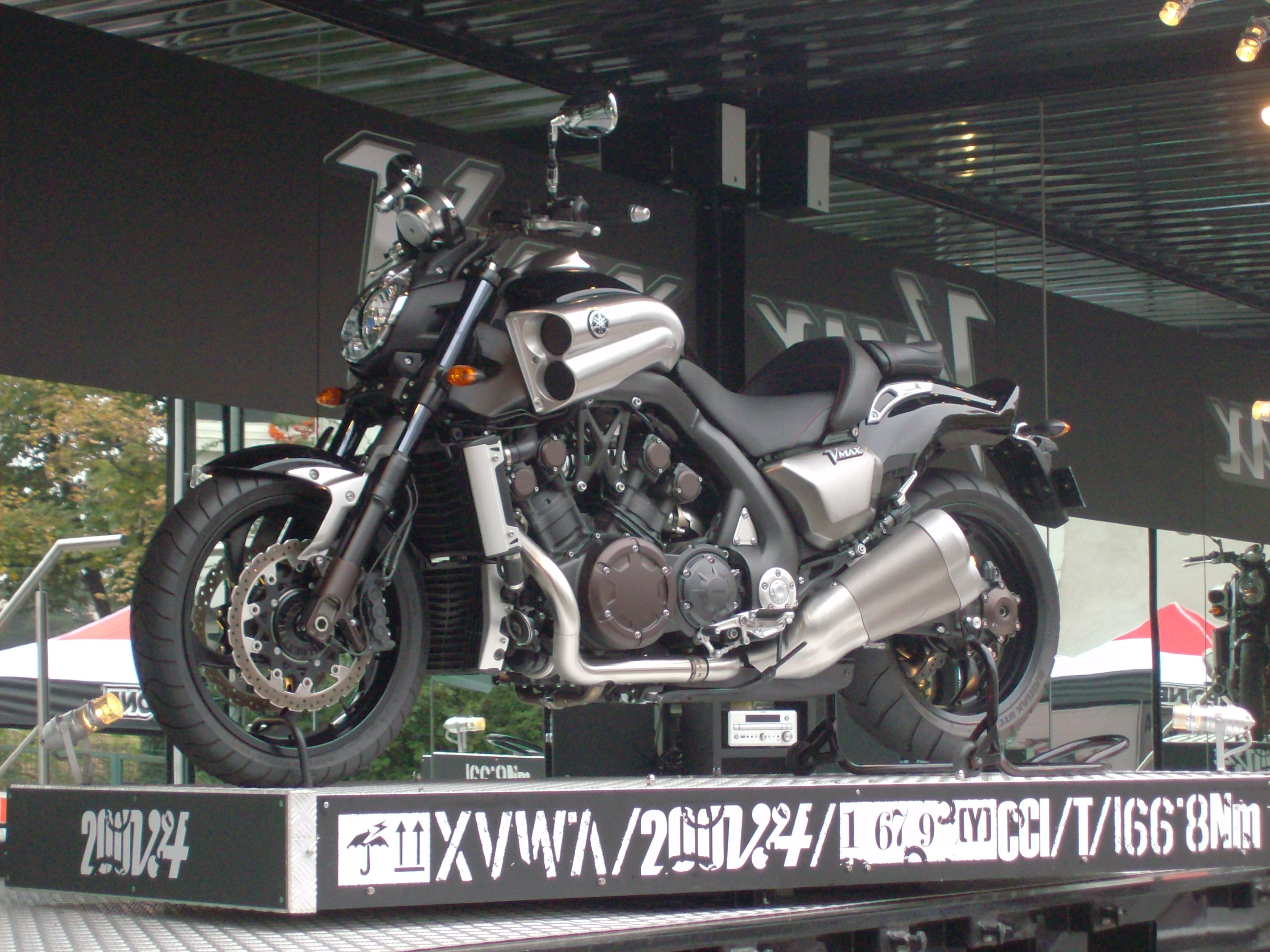 Yamaha 1700 VMax